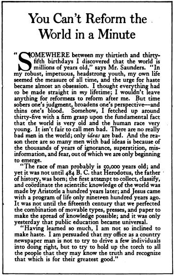 Newspaper column by W.O. Saunders Uploaded from